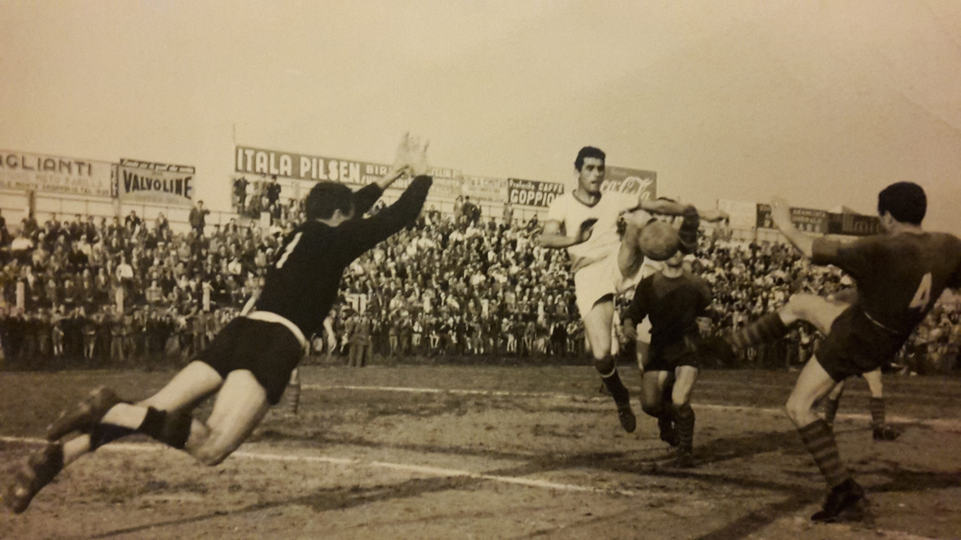 Bruno Ruzza (Treviso, in white shirt) against Narciso Soldan and Italo Rebuzzi (Catania). Treviso-Catania 0-0, Serie B 1951-52